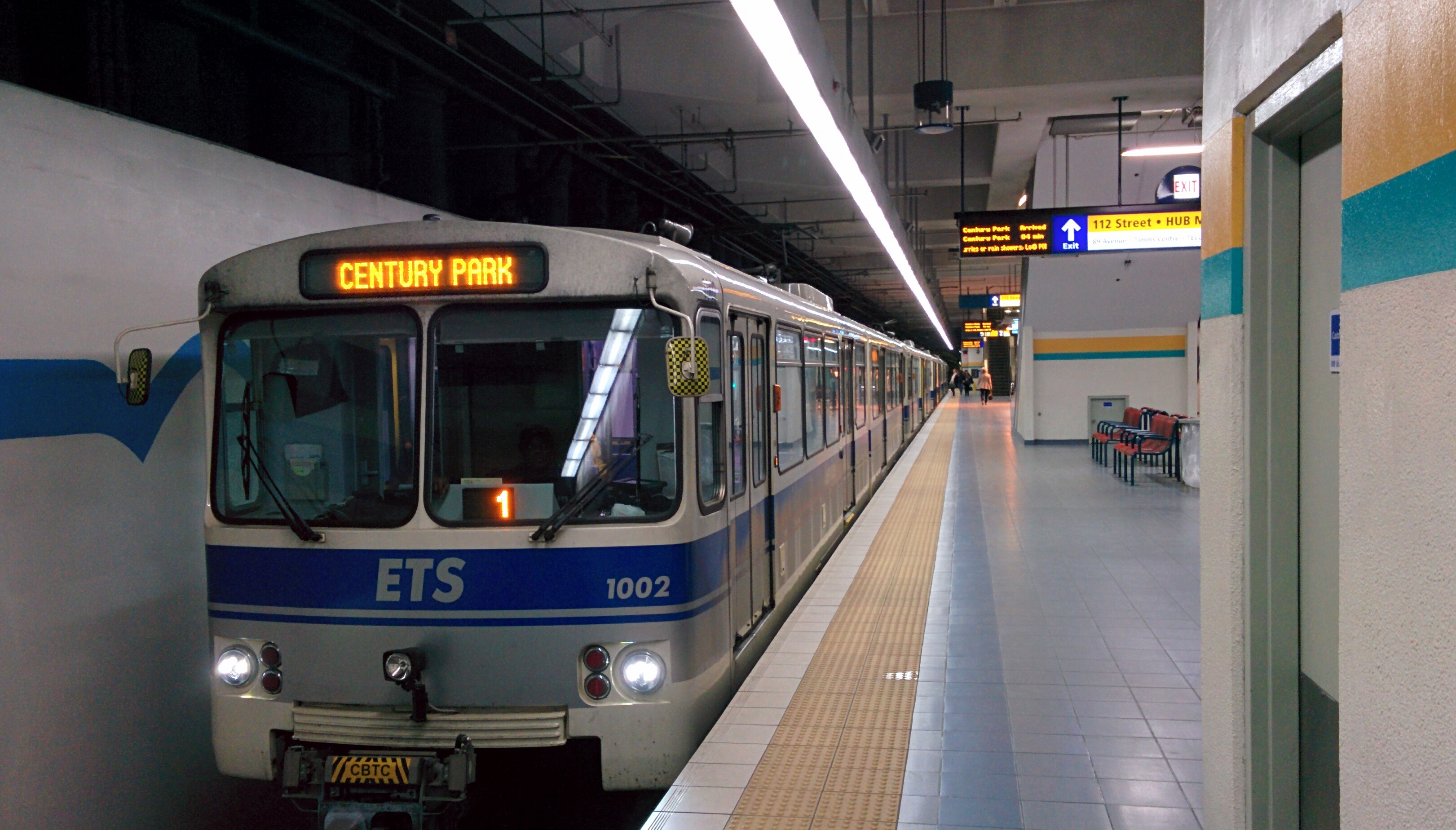 Edmonton Siemens-Duewag U2 Car 1002 after upgrade with new paint and electronic destination signs. Photographed at the University LRT station.